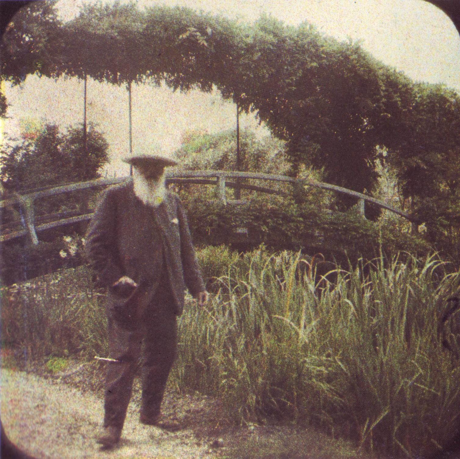 Monet and his gardens, an amateur stereographic Autochrome